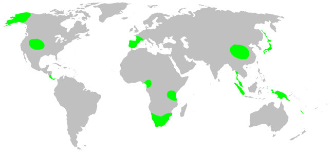 Telemidae habitat distribution, drawn after Platnick: World Spider Catalog 7.0. This is not a precise rendering of the distribution! If you have better information, please replace this map, or send me the info, and i will redraw it.